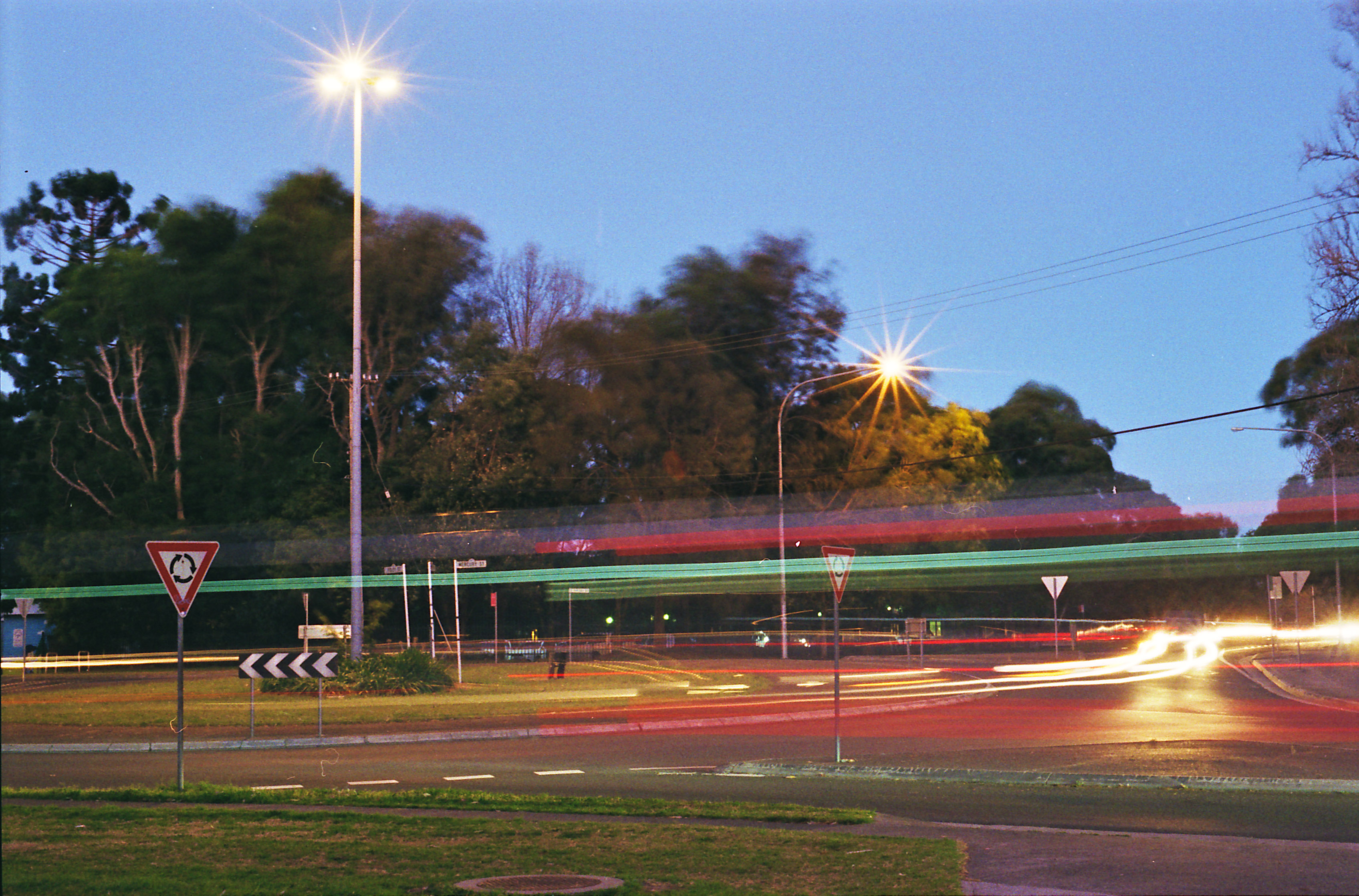 Throsby Drive and Foley Street Roundabout at around 6pm 20/8/2017 Gwynneville